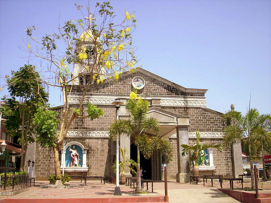 Immaculate Conception Parish Church Taken by the uploader (Jose Angelito P. Angeles) on April 6, 2007.